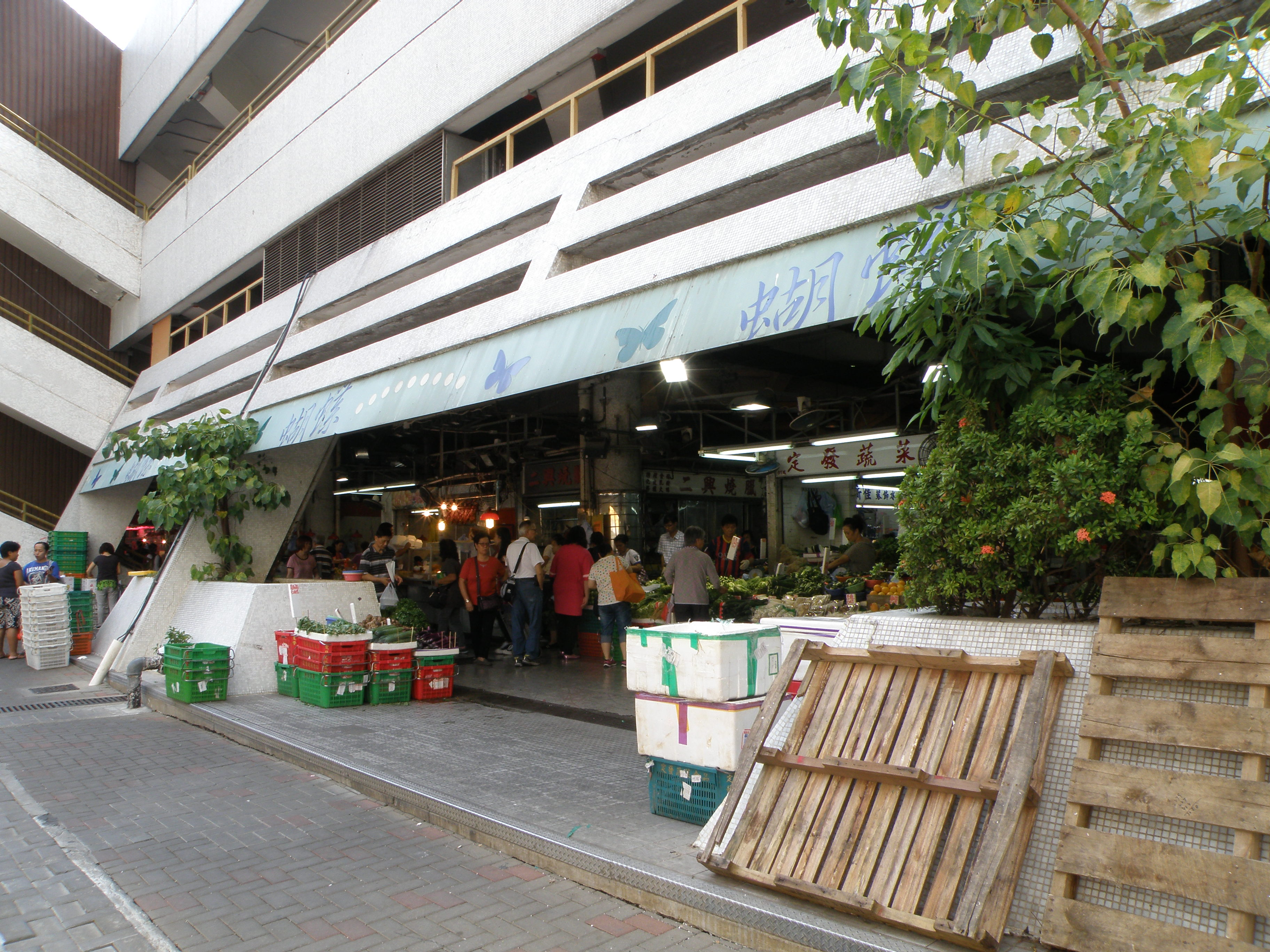 Butterfly Estate Market in Tuen Mun, Hong Kong.